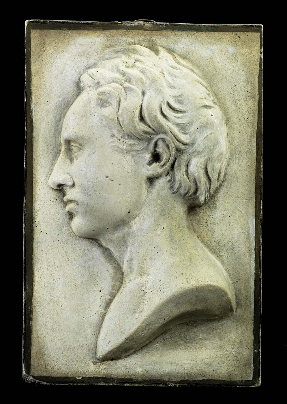 Profile relief of the head of artist Miner Kilbourne Kellogg